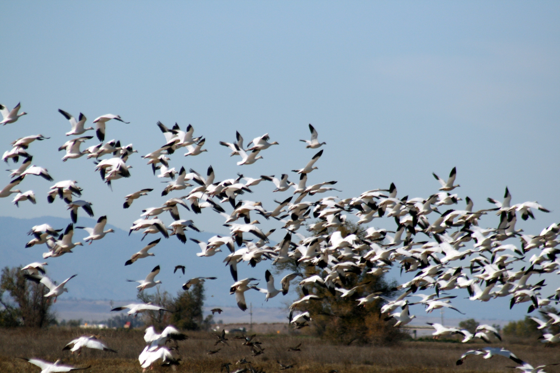 Snow geese, Anser caerulescens Sacramento National Wildlife Refuge